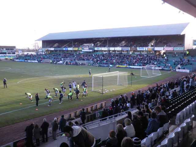 Main Grandstand, Plymouth Argyle FC, near to Plymouth, Great Britain. Plymouth players warm up, before their FA Cup tie with Newcastle United.